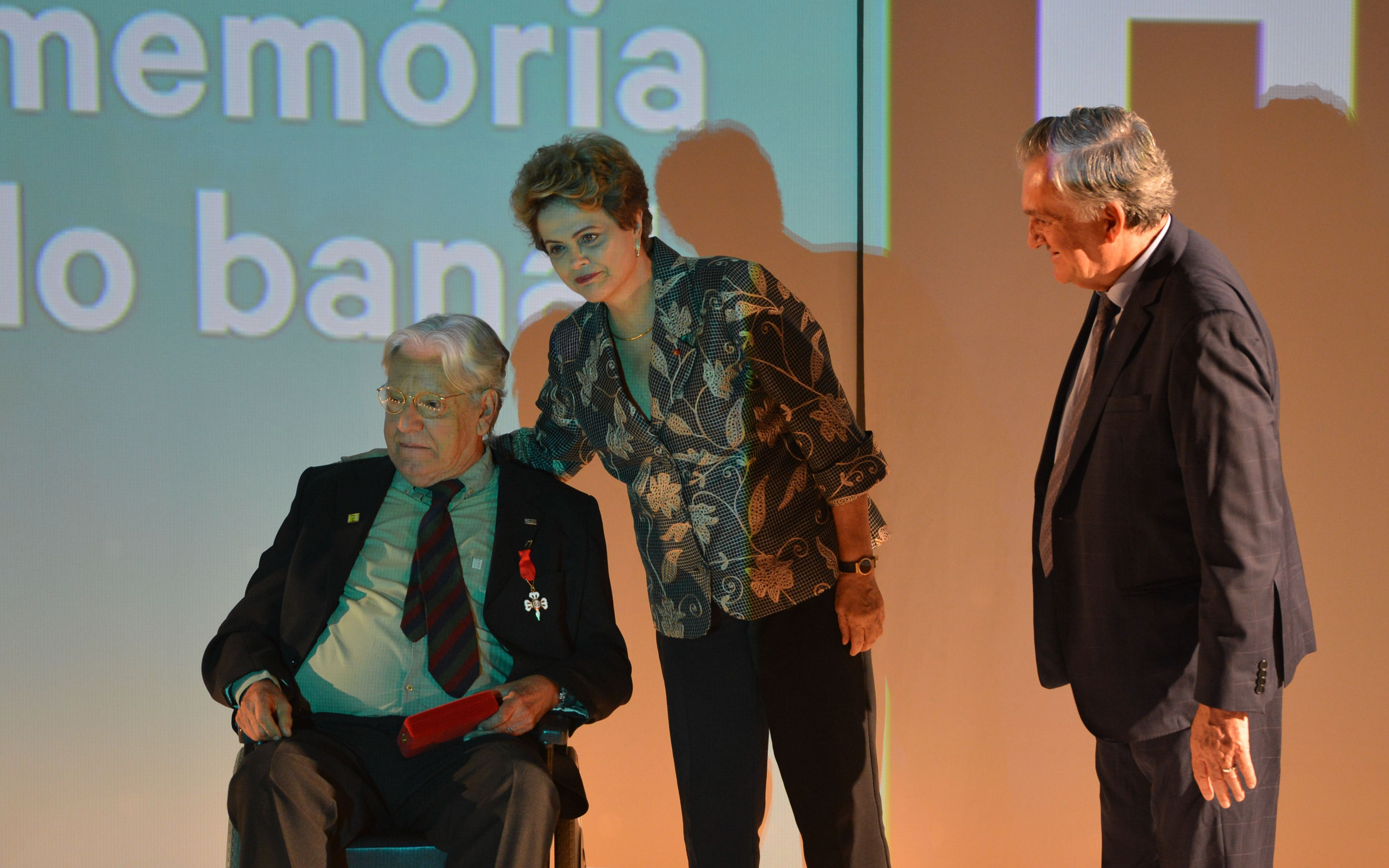 Photo by Valter Campanato/Agência Brasil CCBY3.0